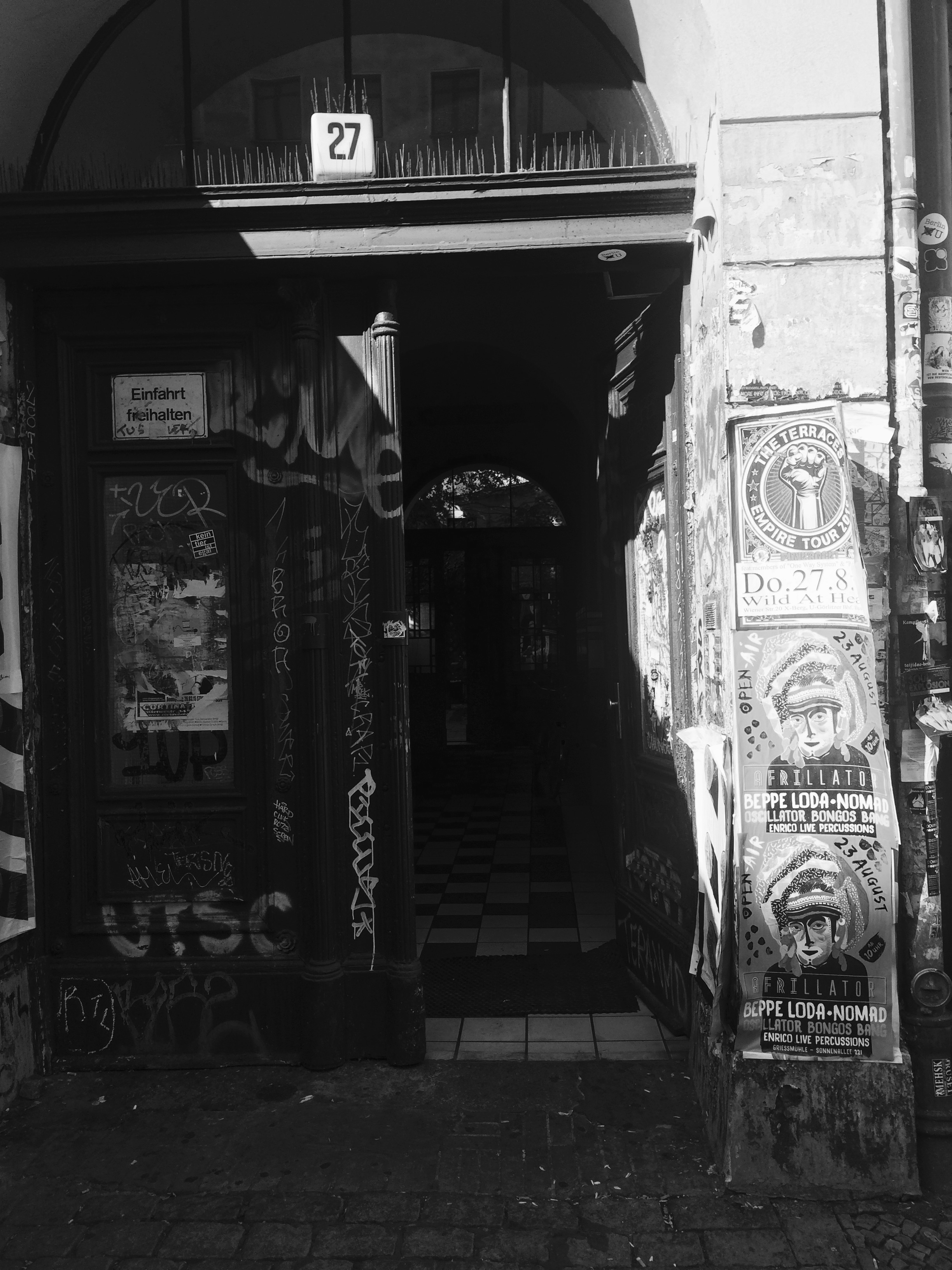 Doorway to the former gallery «zinke» Oranienstr. 27, Berlin nowadays